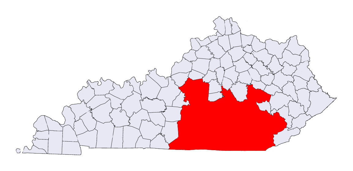 This is a map of the 3rd Court District of Kentucky. The 3rd Court District is the jurisdiction of Kentucky's Court of Appeals for the 3rd district, as well as the electoral boundary of one Justice of the Kentucky Supreme Court.